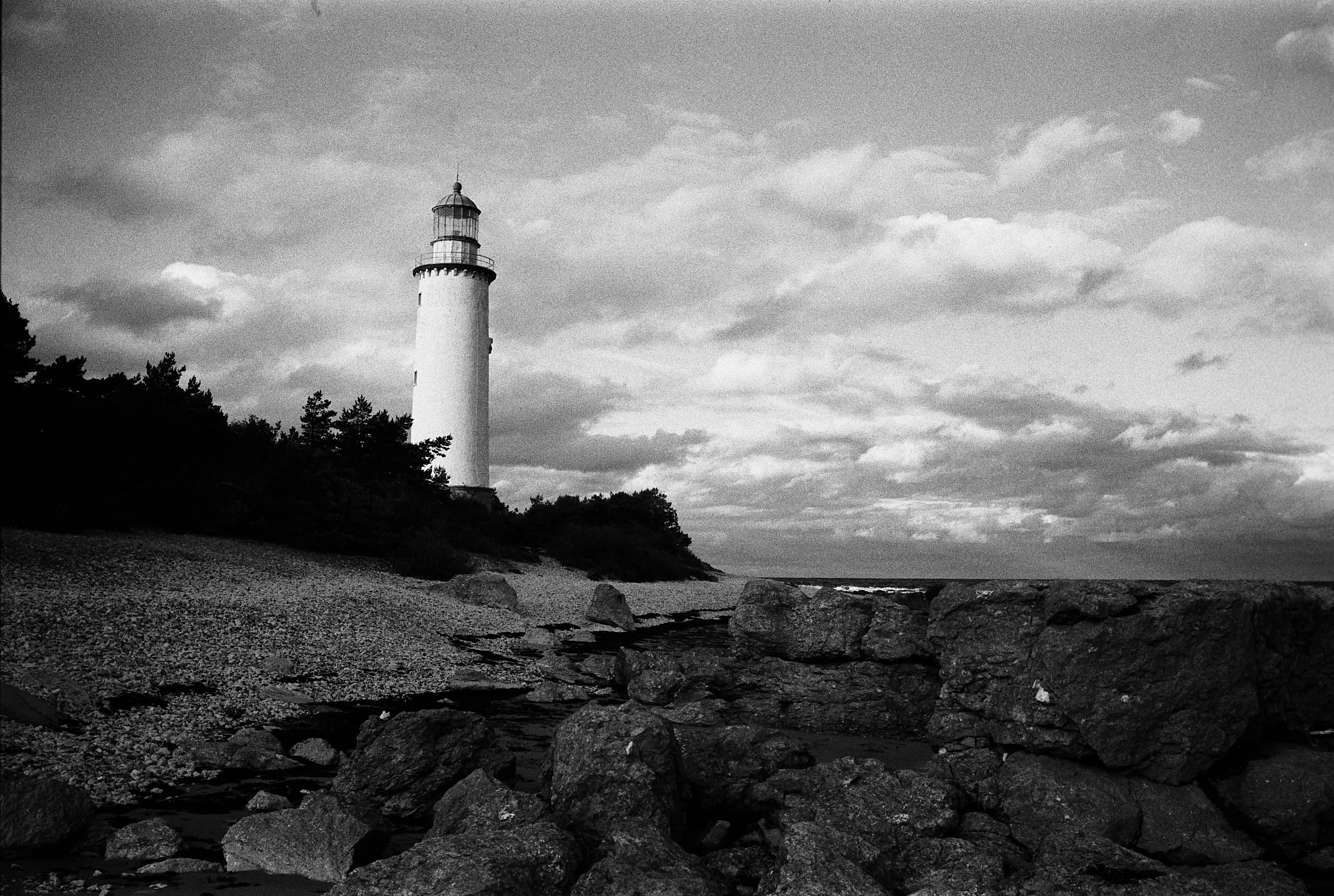 Historical lighthouse at the Northwestern tip of Faro Island, Gotland, Sweden